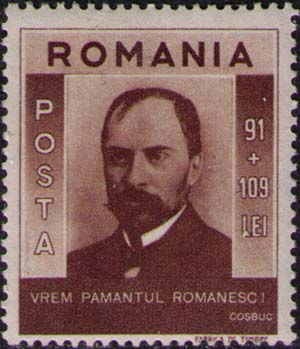 1943 Romanian Post, 91 + 109 lei, brown, representing George Coşbuc; Series:Charity for refugees from Transilvania